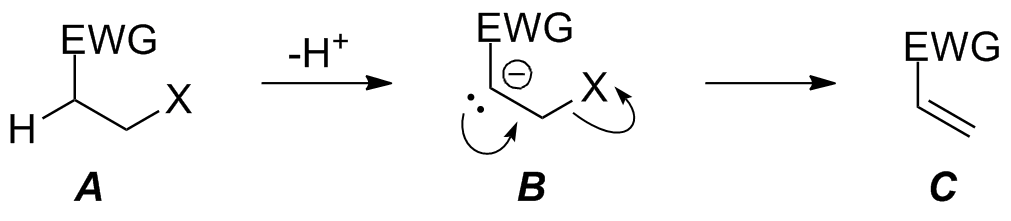 Mechanism of a general E1cB reaction